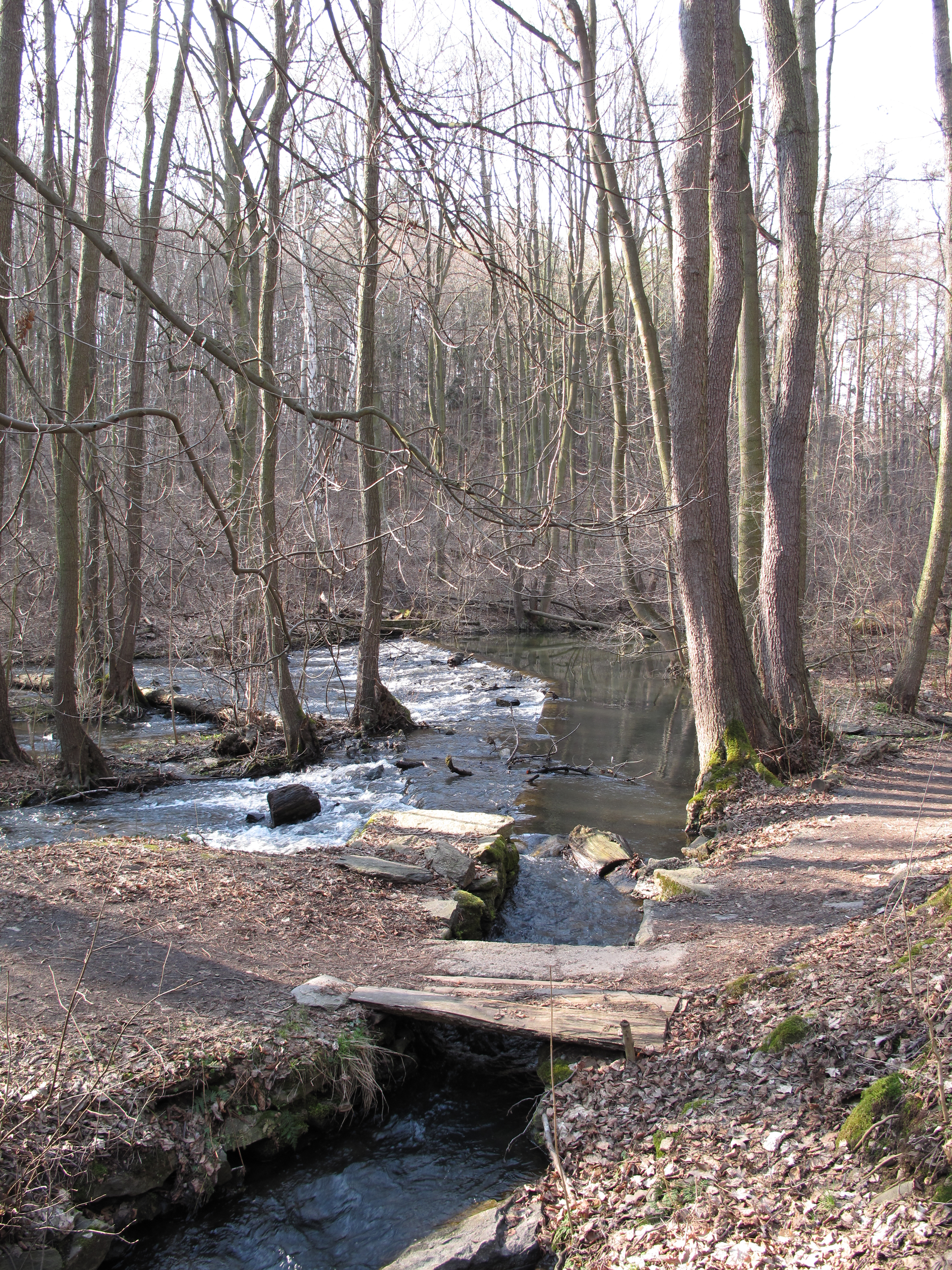 A wier on Vrchlice River with mill-race for Spálený Mill, Kutná Hora District, Czech Republic. This photograph was taken within the scope of the 'Czech Municipalities Photographs' grant.